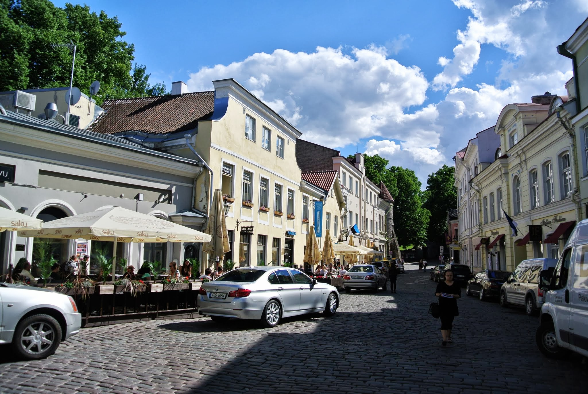 Old Town of Tallinn, Tallinn, Estonia